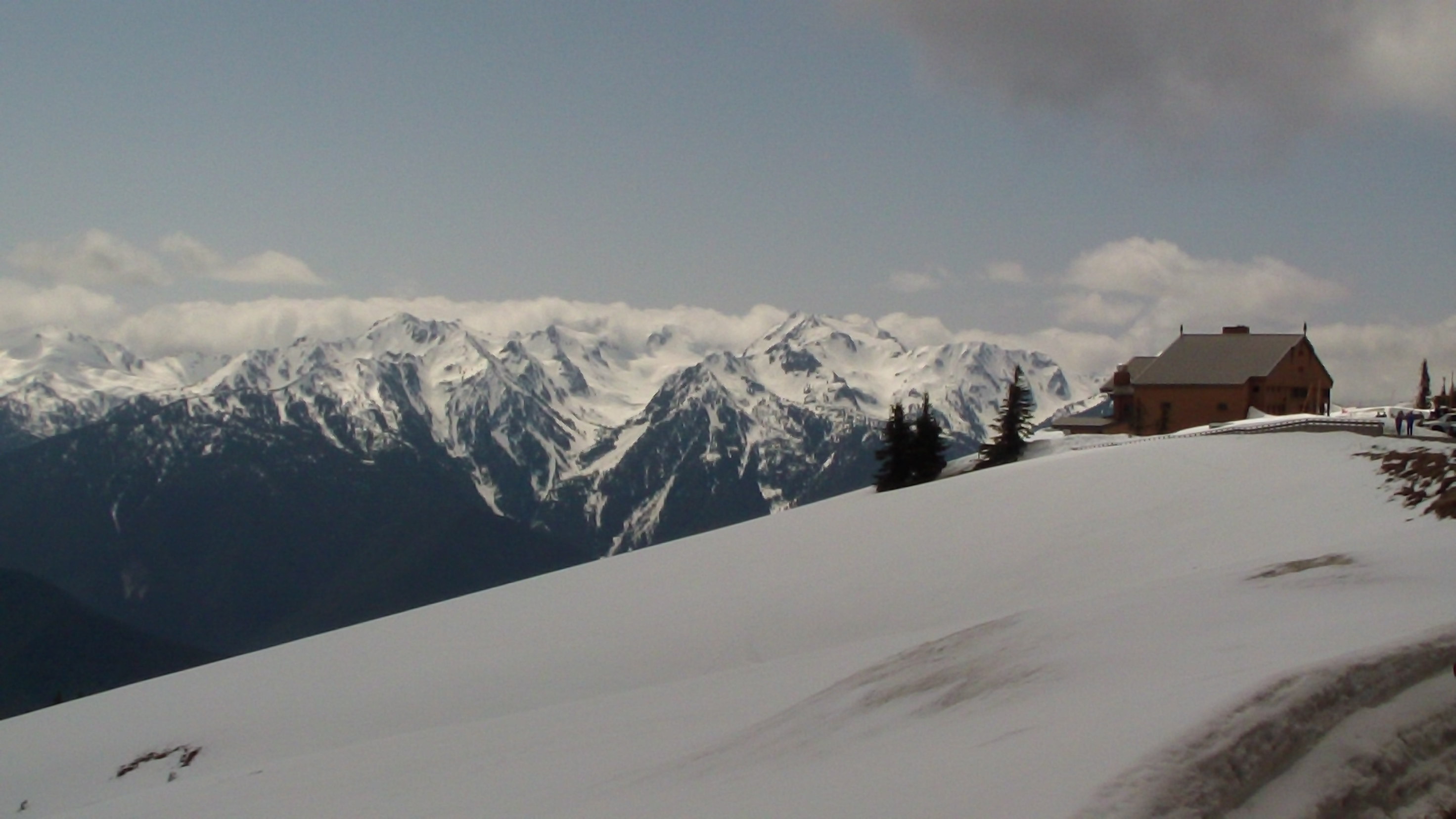 The lodge at Hurricane Ridge